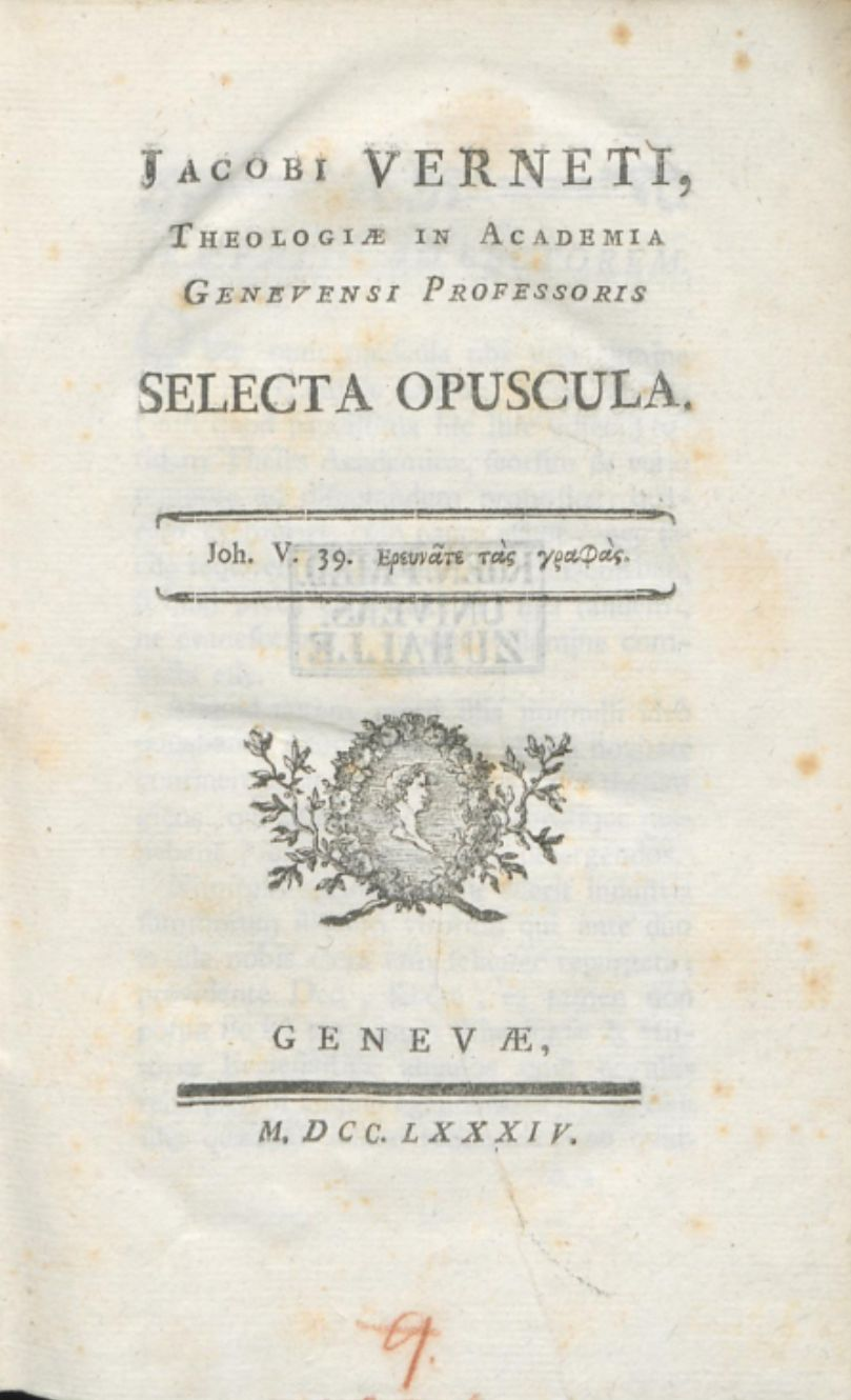 Jacobi Verneti: Theologiæ In Academiæ Genevensi Professoris Selecta Opuscula, Genevæ, 1784